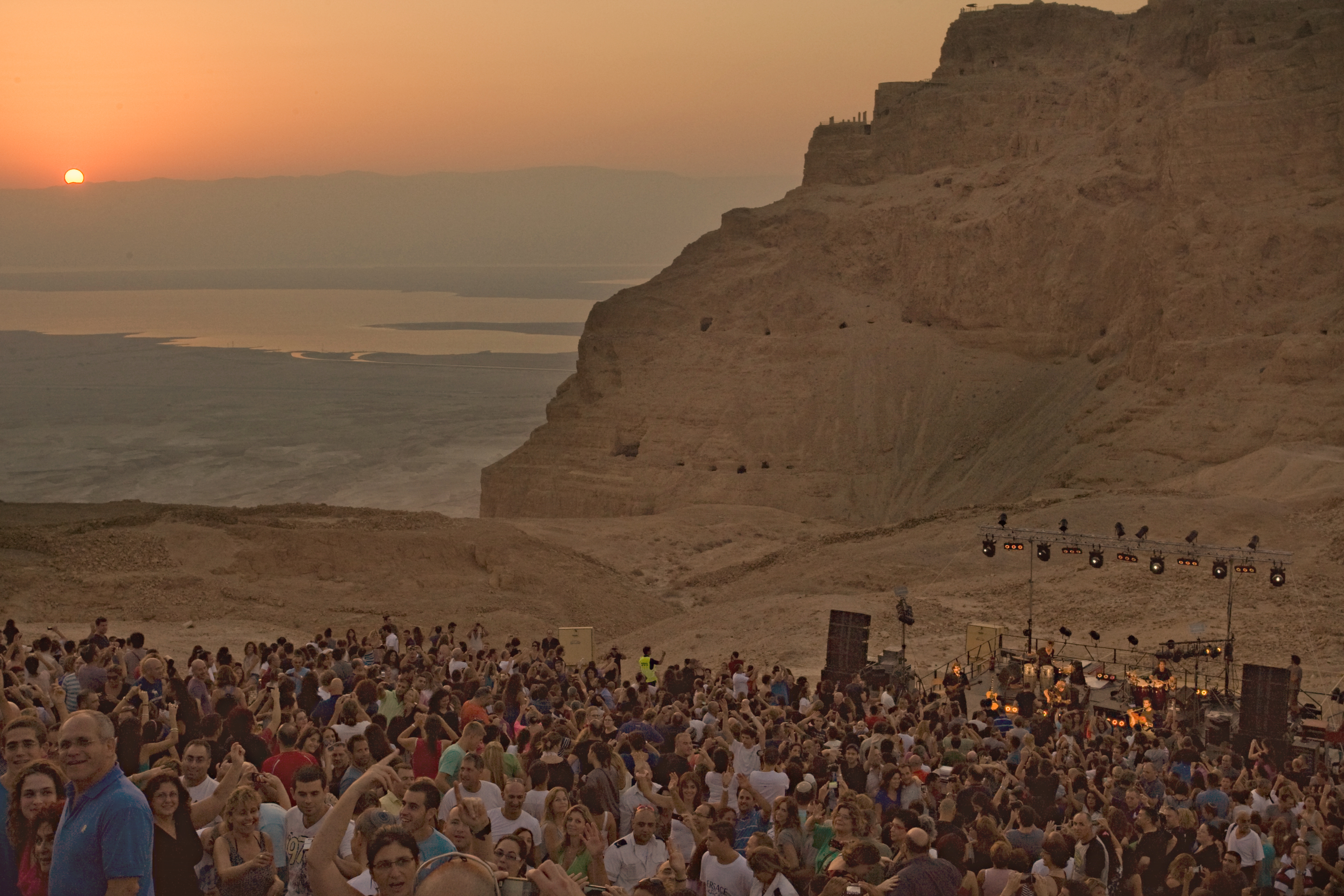 David broza at Masada Gala celebrating twenty years at Masada On love TU B'Av The show took place at the Roman ramp On the Western side of the mountain With a large audience that comes every year to masada Listen to is poems